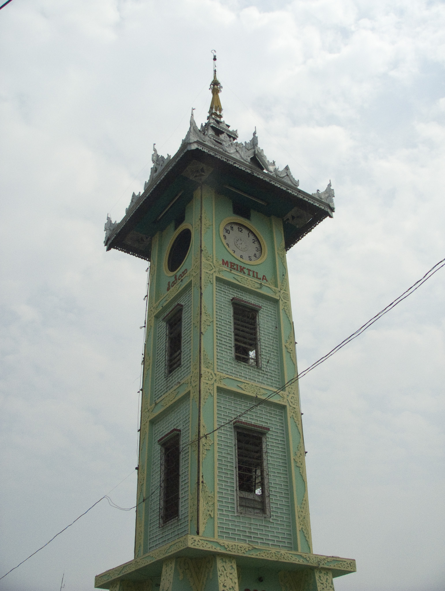 Meiktila Clock Tower, Myanmar